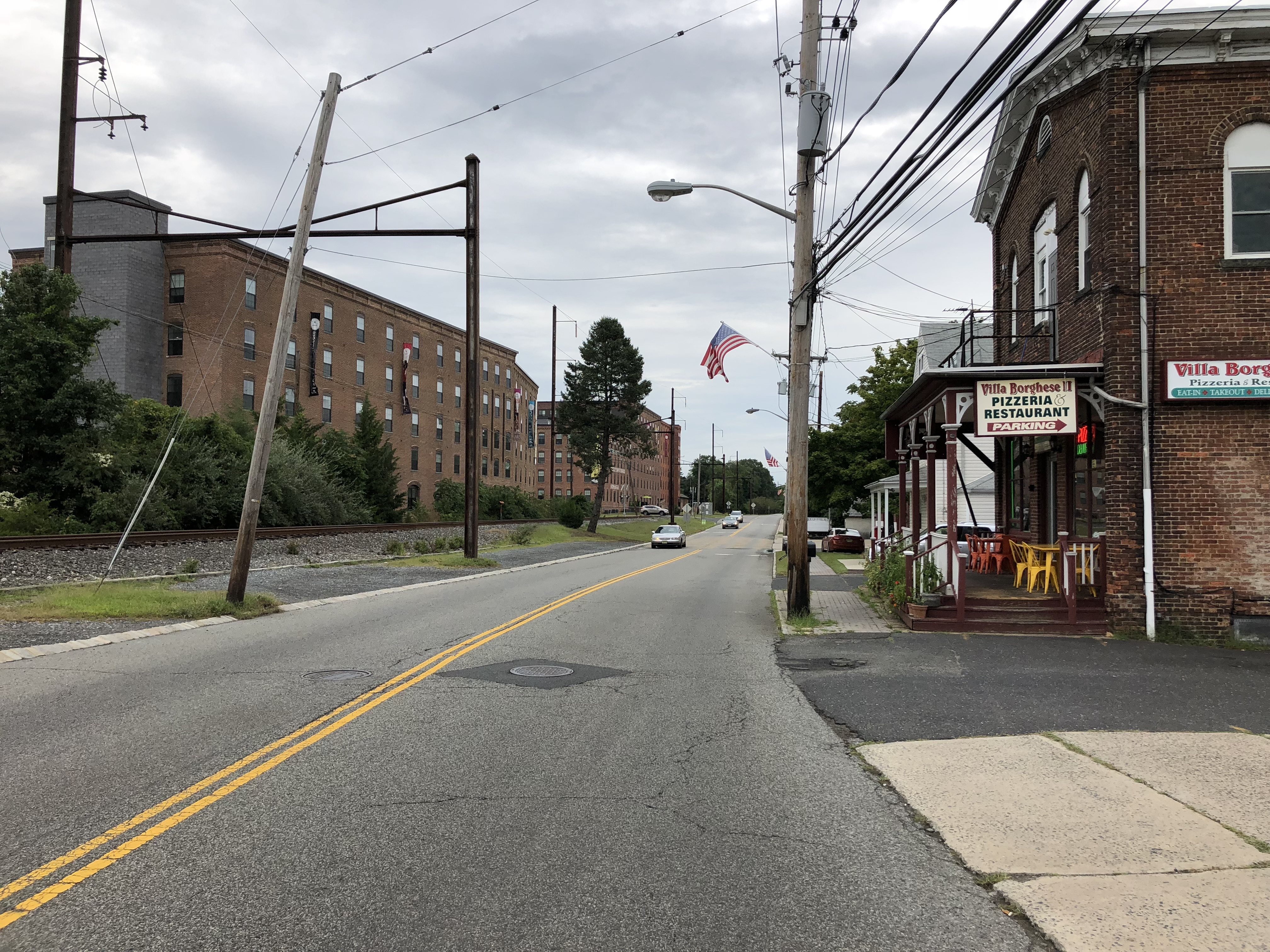 View north along Middlesex County Route 615 (Main Street) at Brookside Place in Helmetta, Middlesex County, New Jersey